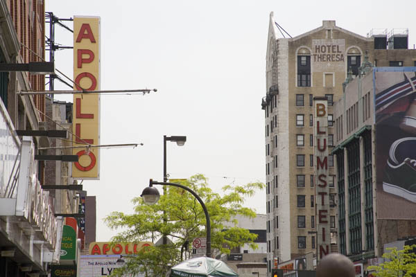 The Apollo Theater in Harlem, New York, as seen from the west. In the background, the Hotel Theresa is visible, as is Blumstein's department store, the first business along 125th Street to employ blacks as salespeople. Photo by Stern, 2006.